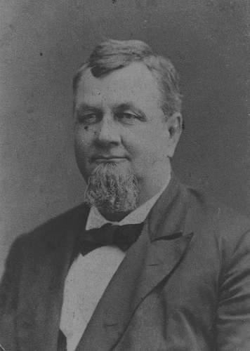 Photographic portrait